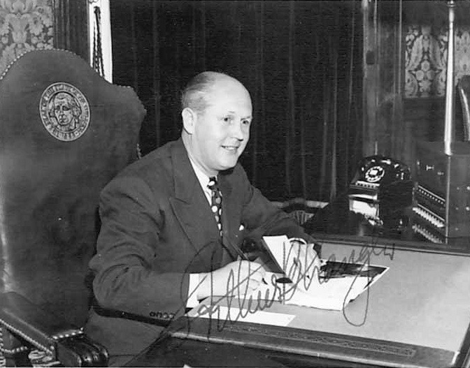 Photo of Arthur B. Langlie, Governor of Washington from 1941–1945 and 1949–1957.